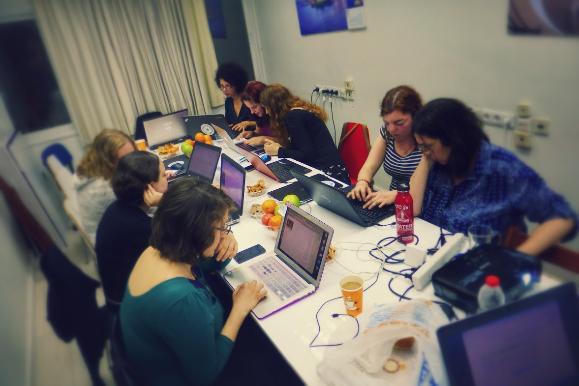 Wiki Women Editors Project - Women in technology 2.4.2015